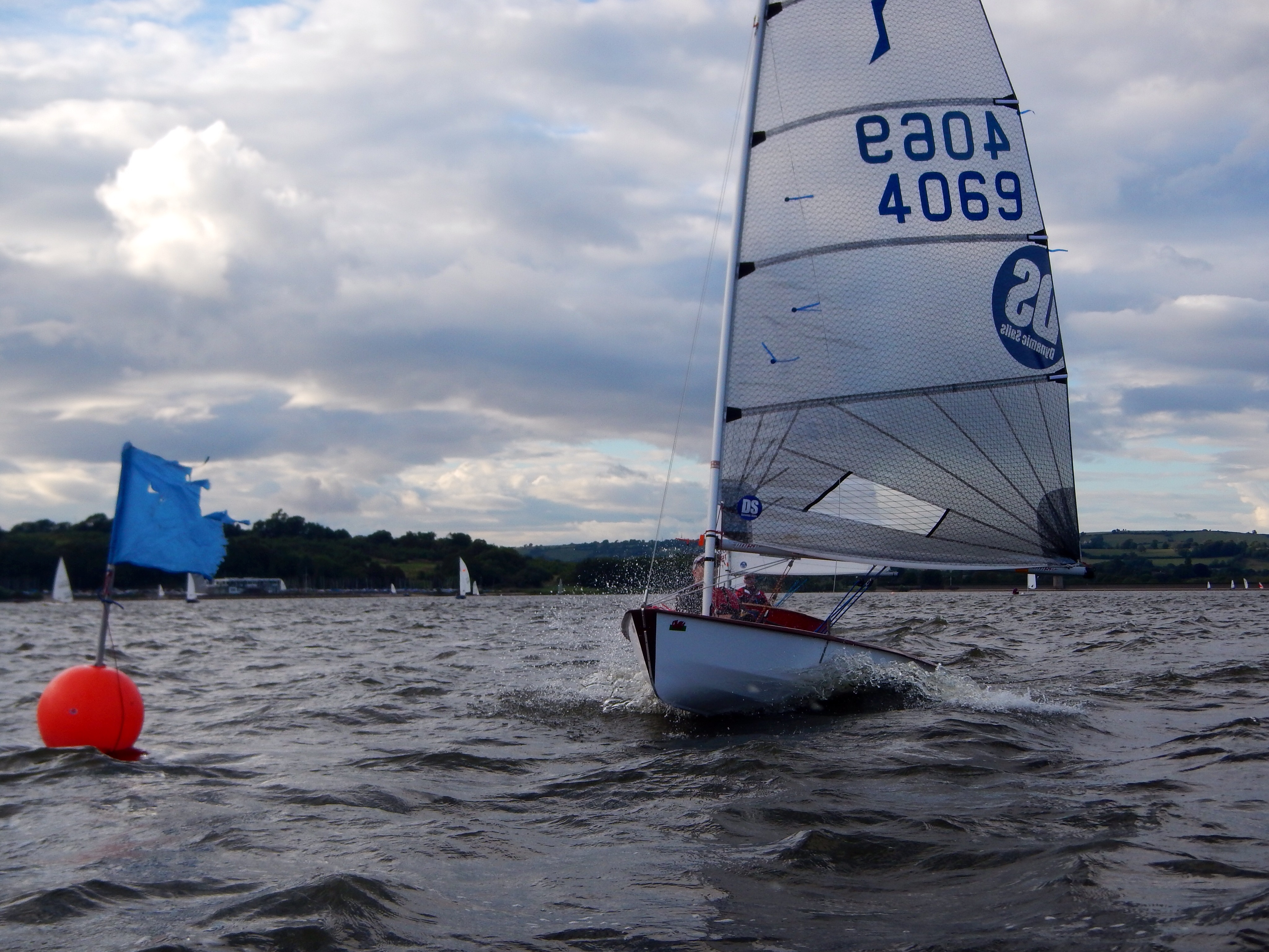 Solo 4069 at Chew Valley Lake Sailing Club